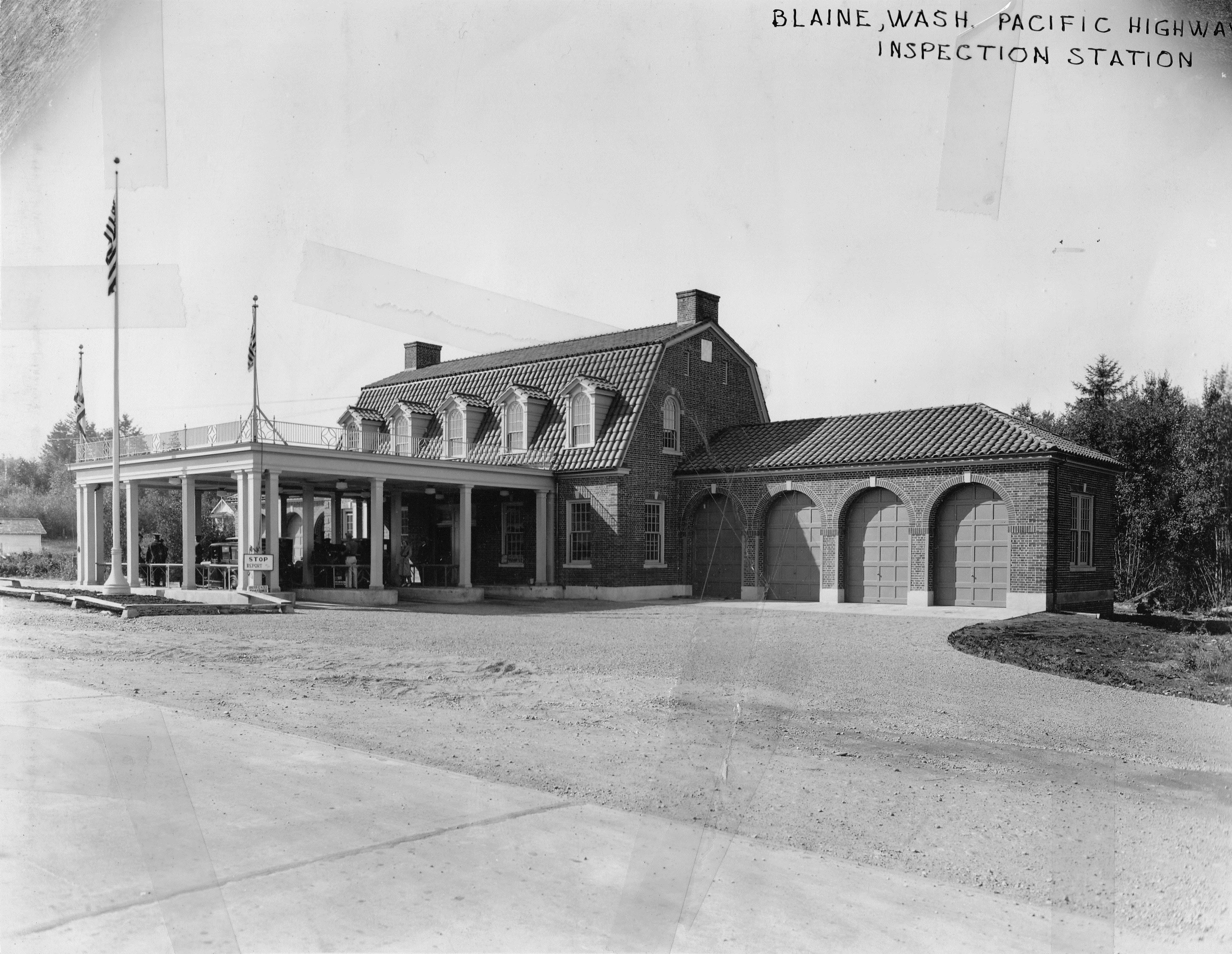 US border inspection station in Blaine, Washington at the Pacific Highway border crossing as seen in 1931